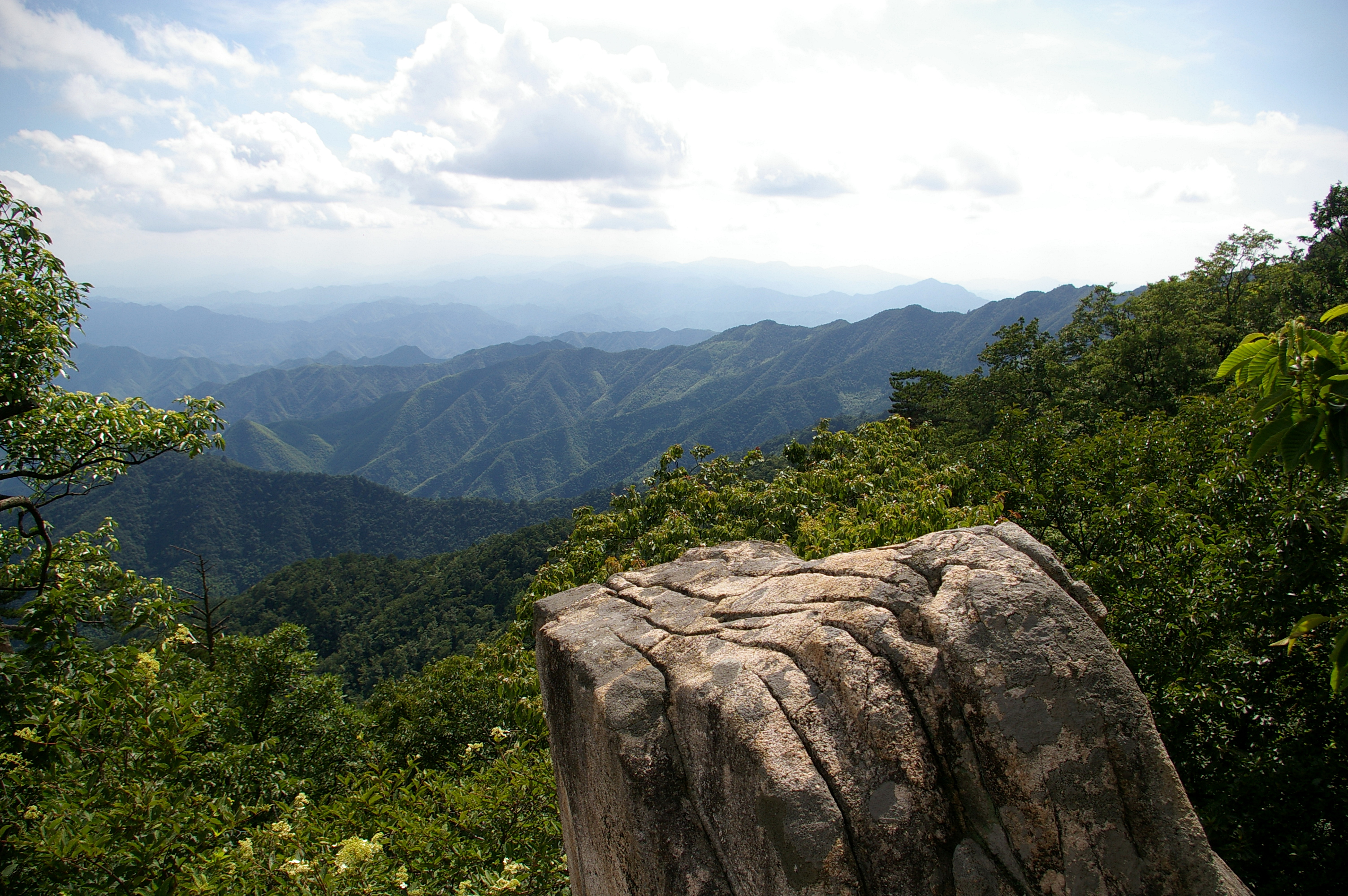 Mount Tianmu Park